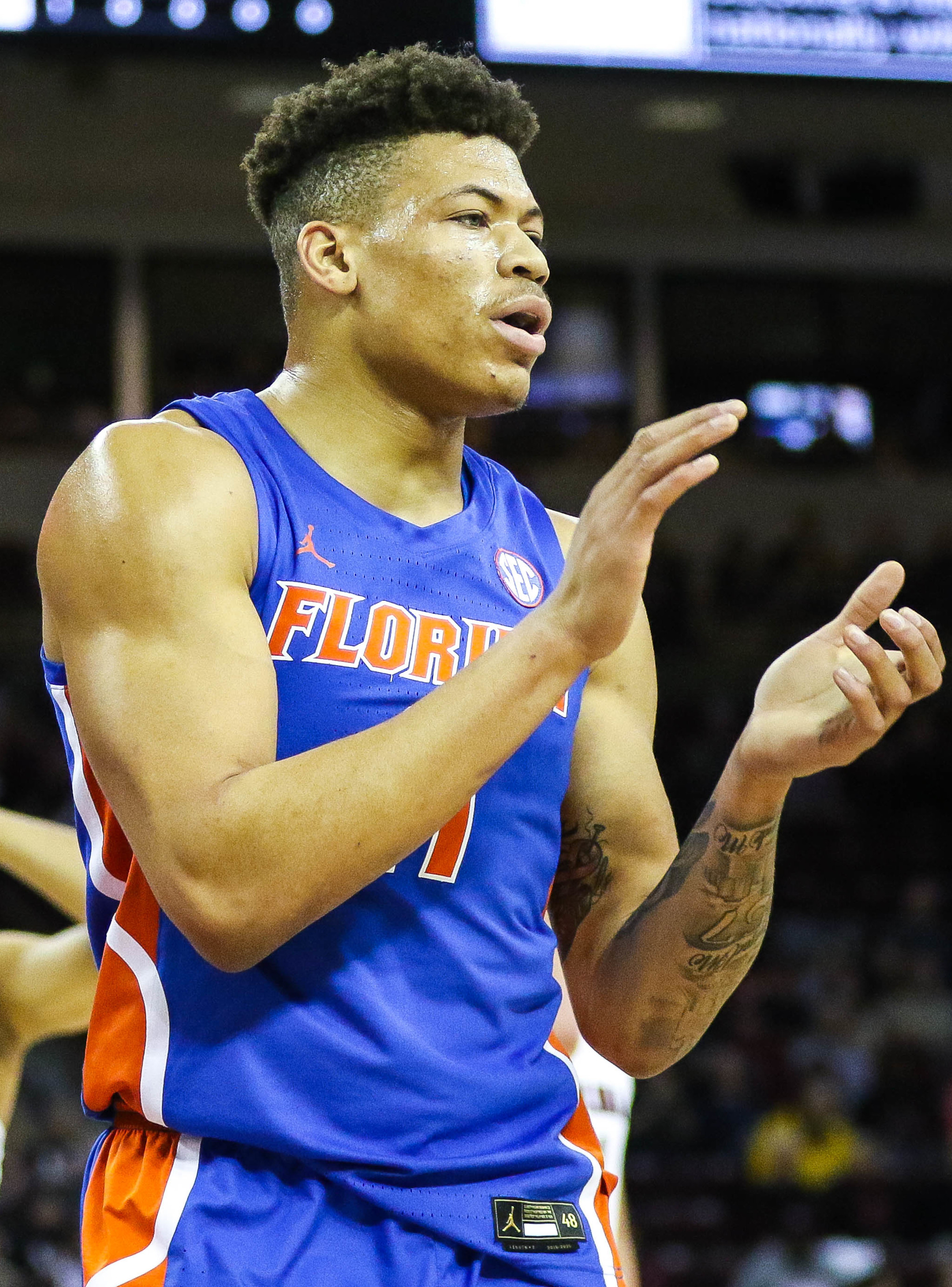 Photo by Katie Dugan